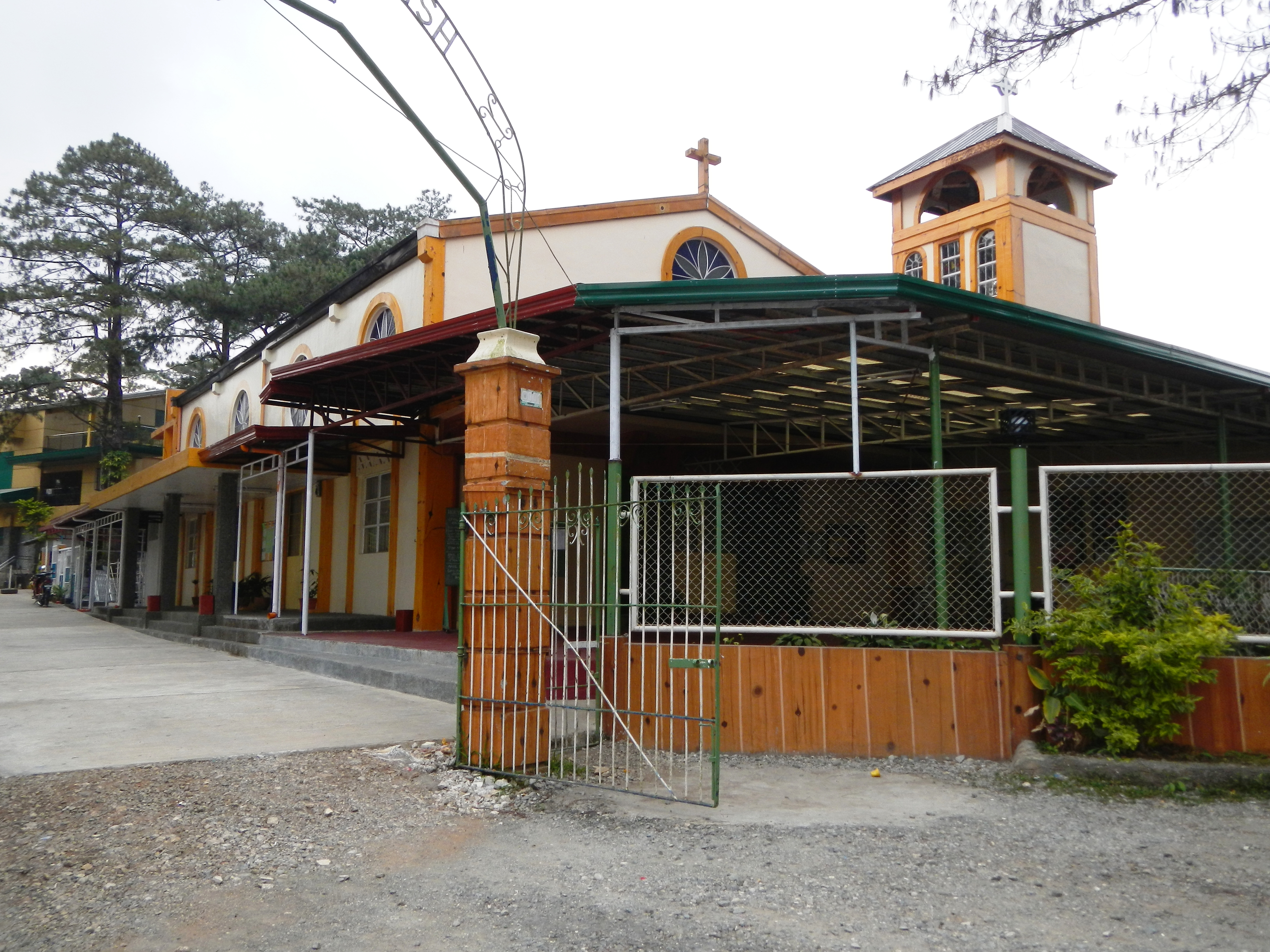 Saint Joseph, Husband of Mary Parish Church (Irisan, Baguio City), Roman Catholic Diocese of Baguio, Roman Catholic Diocese of Baguio, Irisan, Baguio [1] Naguilian Road, Quirino Highway, Irisan, Baguio, and the scenery, landscape in sunset Irisan).